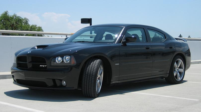 2006 Dodge Charger SRT-8 photographed in CA, USA.